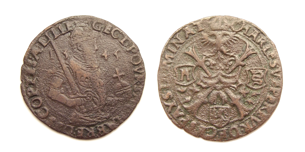 Low Countries, jeton of the Chamber of Accounts of Lille, Charles V, date 1545. Obverse: Crowned half length figure of Charles V, holding raised sword and orb, date 1545. Reverse: Burgundian steel superimposed on Burgundian cross; double headed eagle above; shields of Spain and Milan besides; jewel of the Golden Fleece and shield of Flanders below.